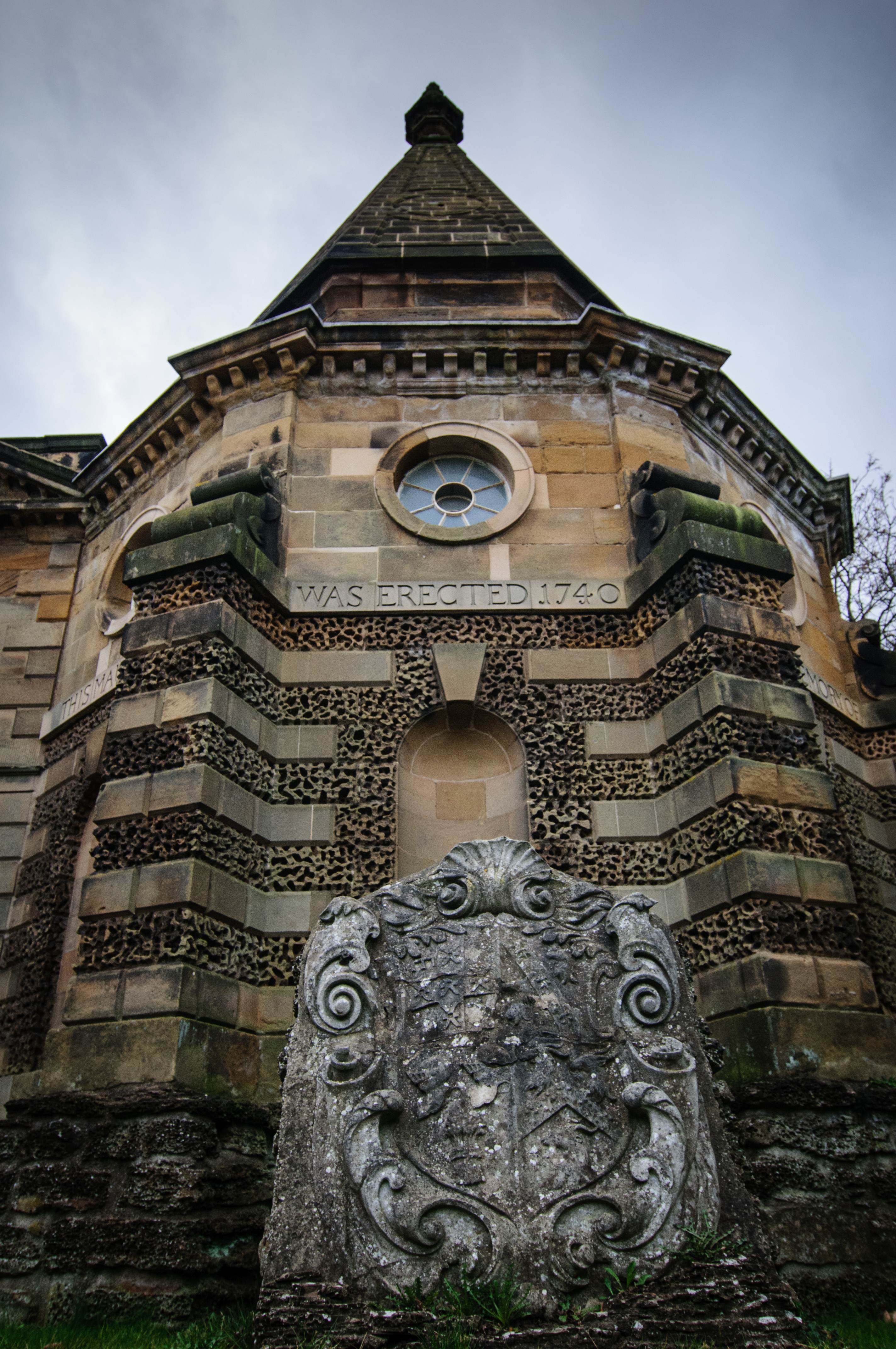 Part of the Turner Mausoleum at St Cuthbert's parish church, Kirkleatham, North Yorkshire